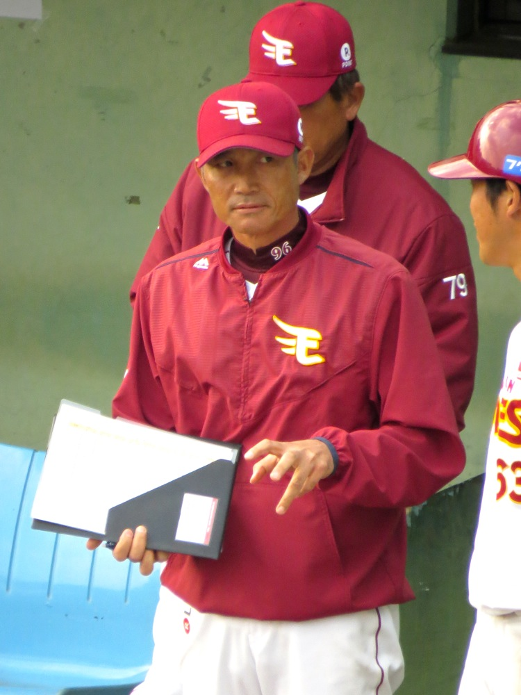 Ryo Kawano, coach of the Tohoku Rakuten Golden Eagles, at Saitama Municipal Urawa Baseball Stadium